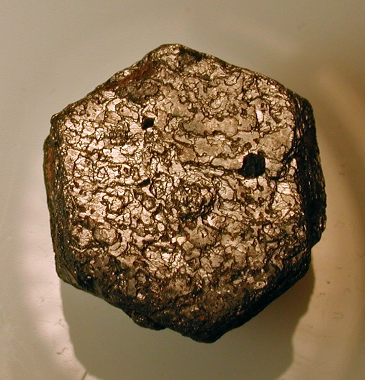 Hibonite, 1.6 cm sharp & lustrous crystal - Locality: Esiva eluvials, Maromby Commune, Amboasary District, Anosy (Fort Dauphin) Region, Tuléar (Toliara) Province, Madagascar